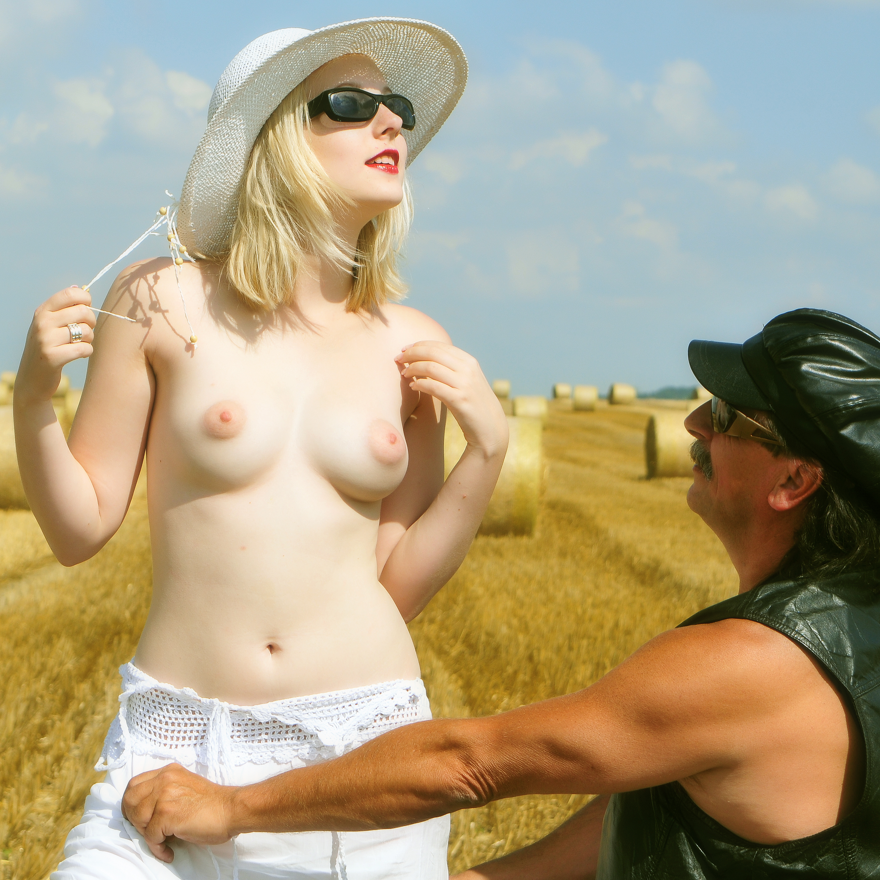 Topless blond woman wearing a hat and sunglasses with a man wearing a black leather vest and cap in a harvested field in Beucha (Brandis), Saxony, Germany.